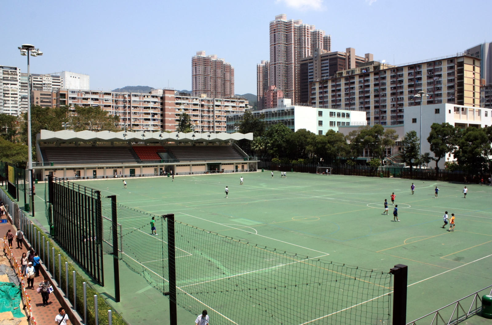 Sha Tsui Road Playground 沙咀道遊樂場